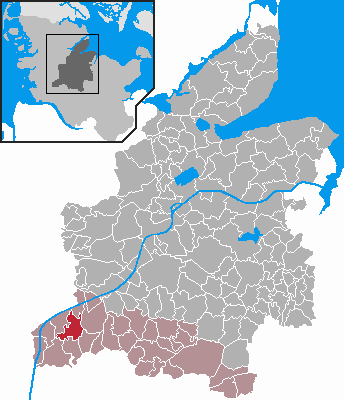 Locator maps of municipalities in Schleswig-Holstein - District Rendsburg-Eckernförde